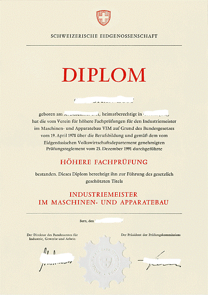 Swiss Higher Education Diploma